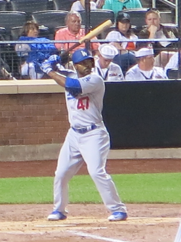 Howie Kendrick with the Los Angeles Dodgers, May 29, 2016.